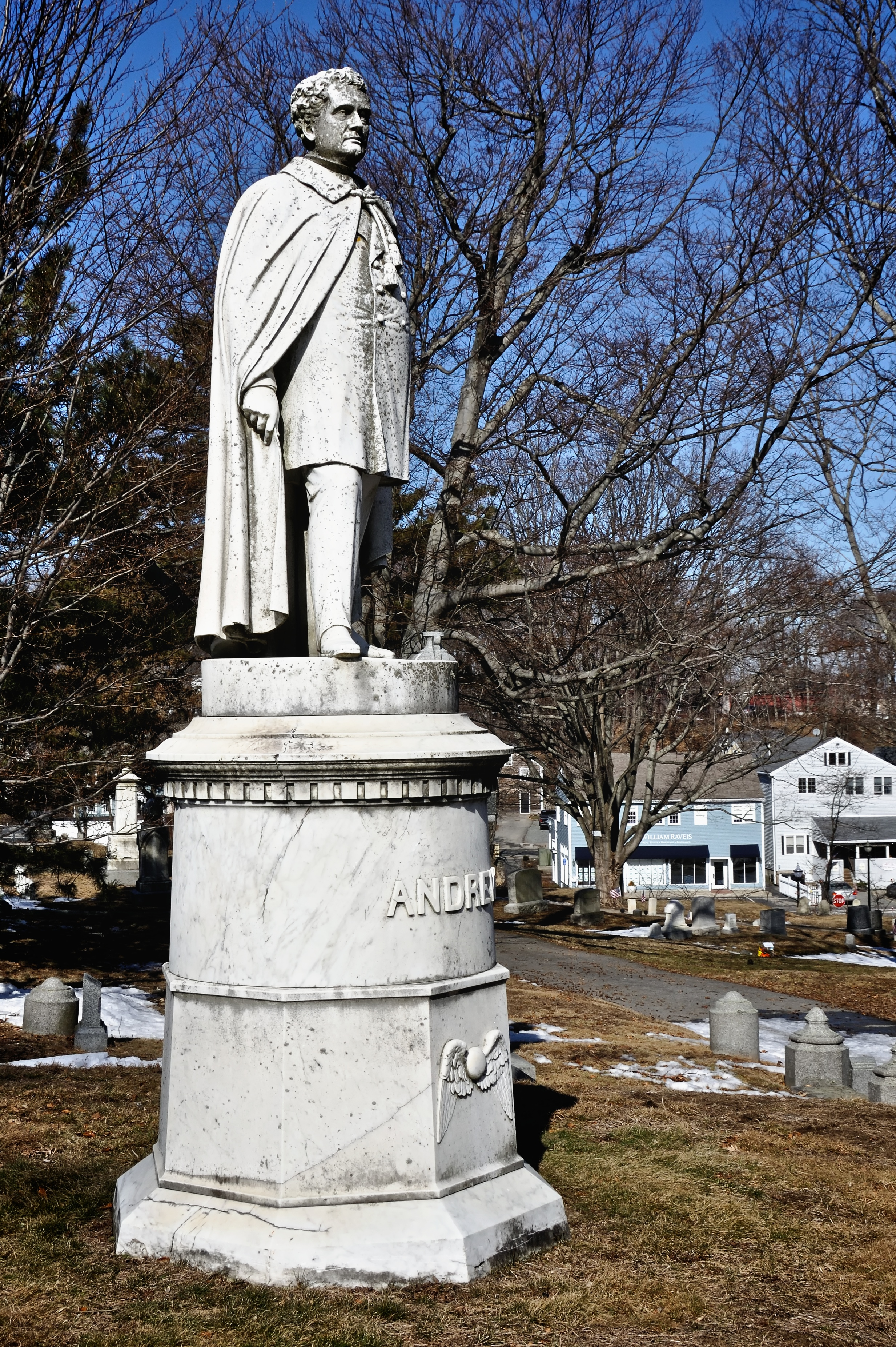 Statue of Massachusetts Governor John Albion Andrew, Hingham, Massachusetts. Buried in the Old Ship Church Cemetery, Hingham. Statue by sculptor Thomas R. Gould constructed in 1875. See Appleton's cyclopedia for further information.